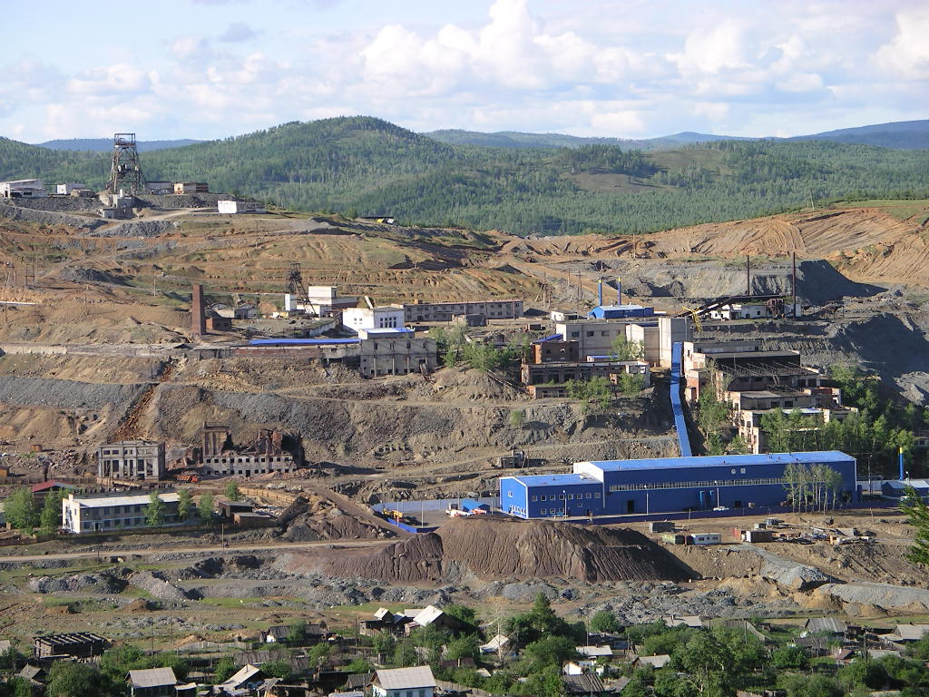 The Vershino-Darasunsky gold mine in Chita.